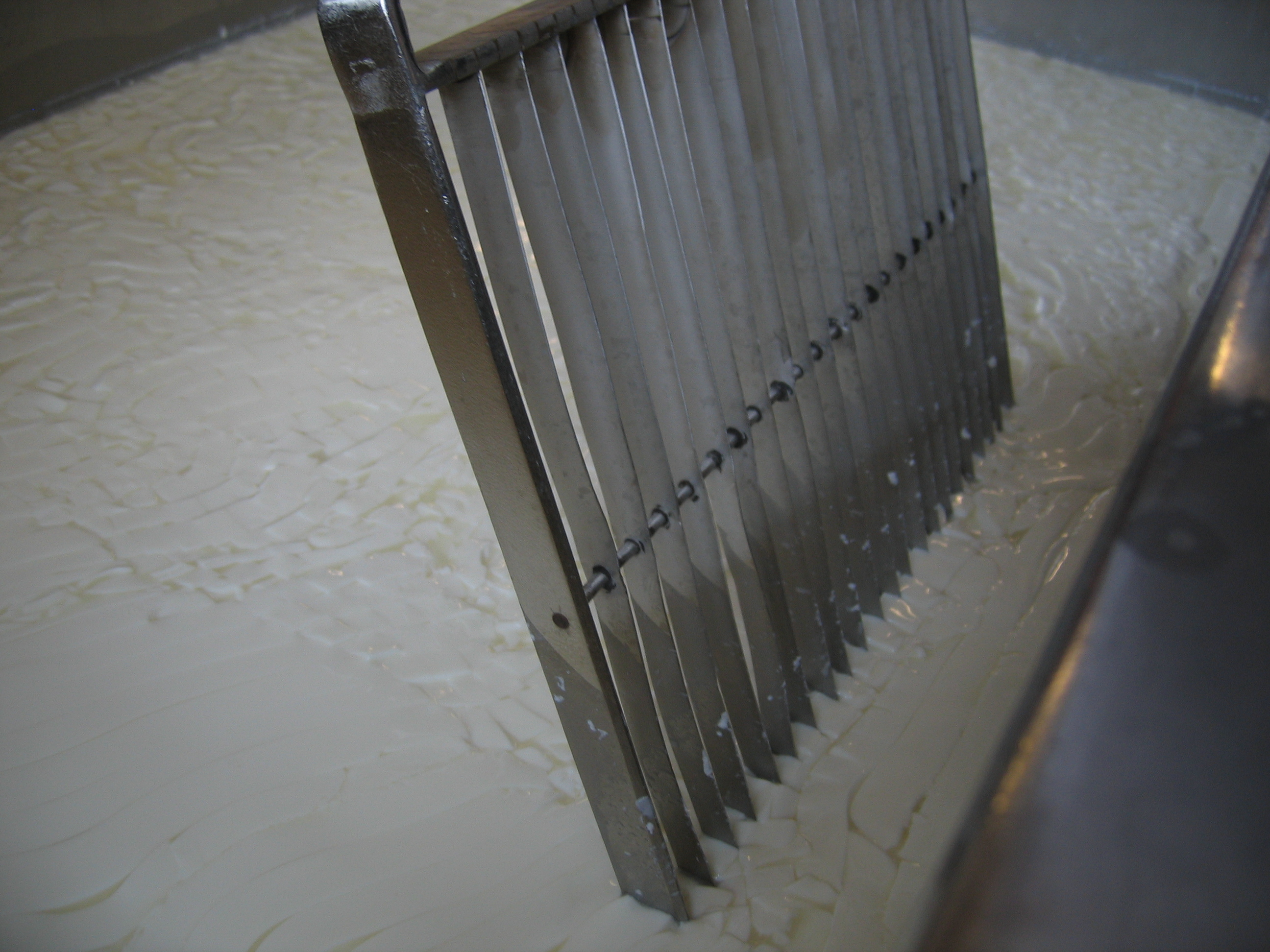 Cuting of the curd. Production of Feta. Norsk (bokmål): Skjæring av koagel under produksjon av fetaost.